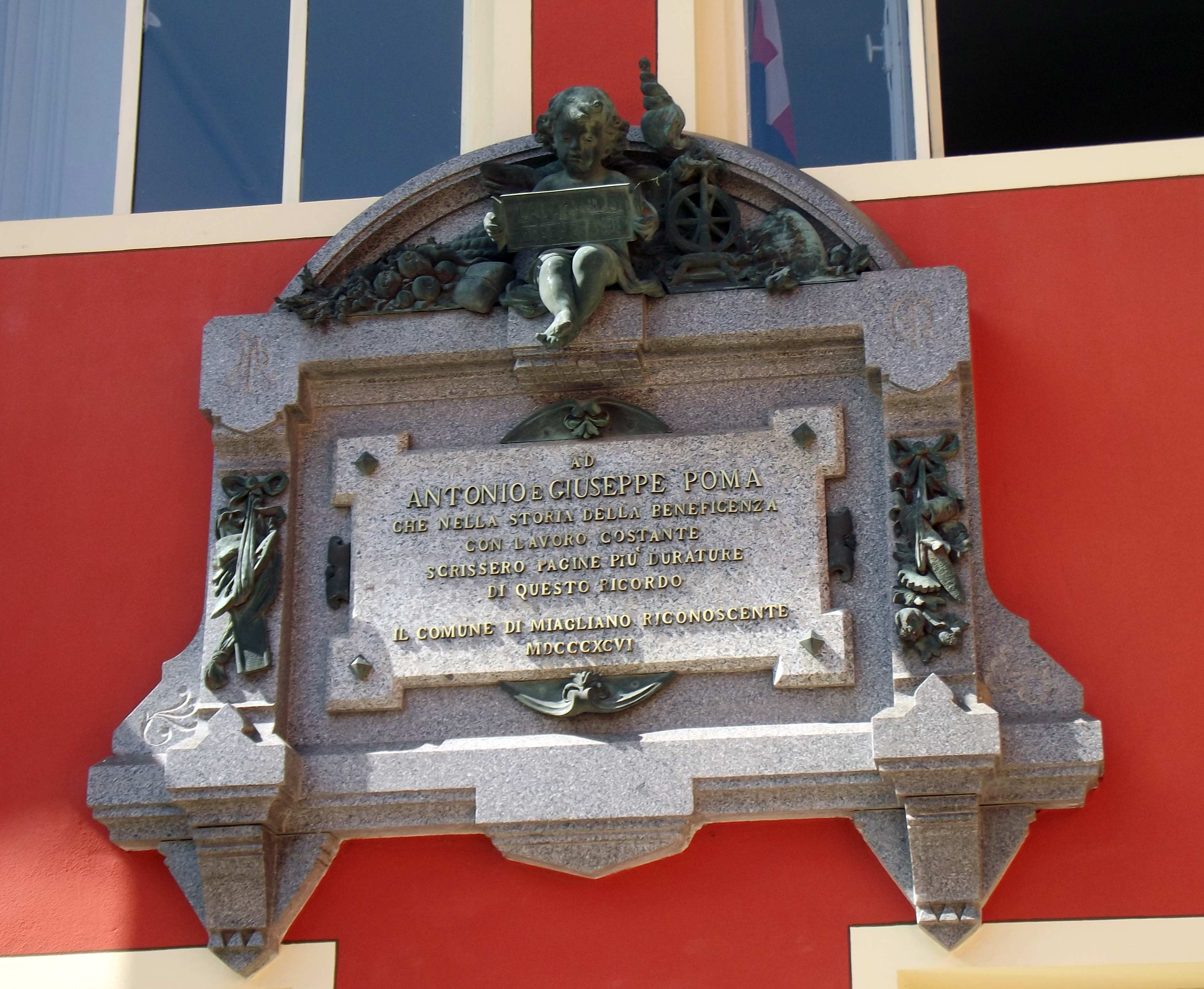 Miagliano (BI, Italy): Giuseppe Poma memorial tablet